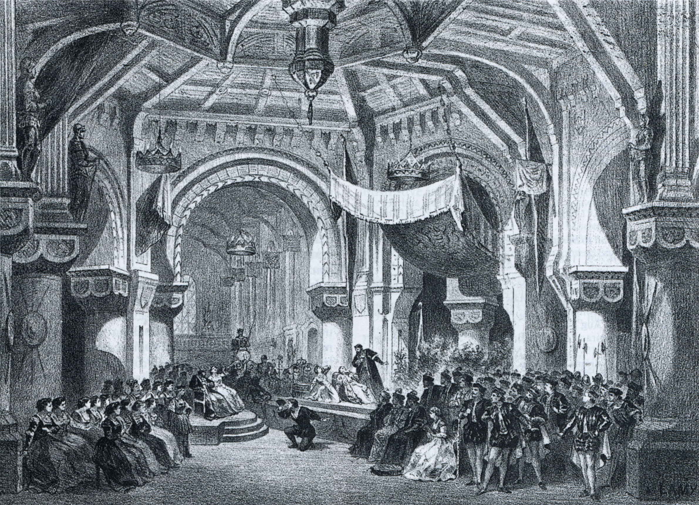 Act 2 scene 2 of Hamlet by Ambroise Thomas.